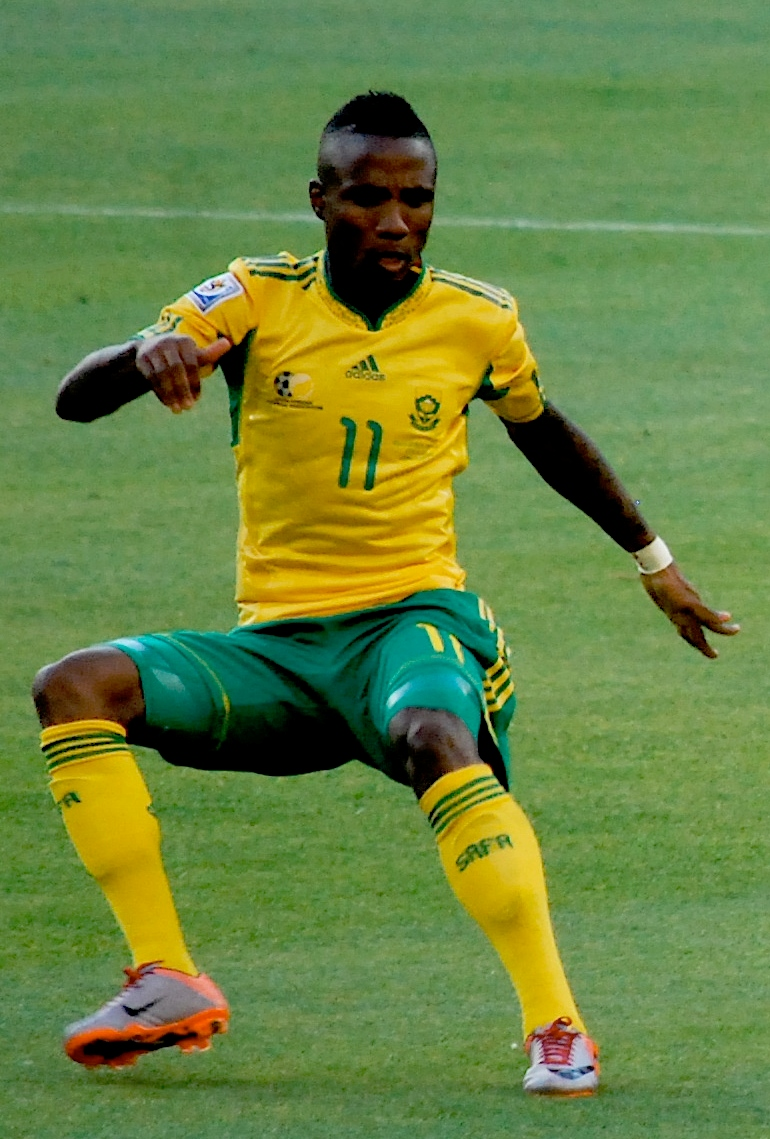 Teko Modise at the match of Mexico VS South Africa in Soccer City, Johannesburg